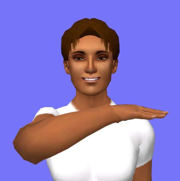 Ayiin (アイーン, Trademark gesture of Japanese comedian Ken Shimura)